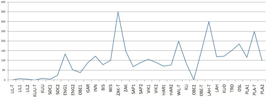 Points earned by polish ski jumpers in FIS World Cup 2012/2013 competitions.